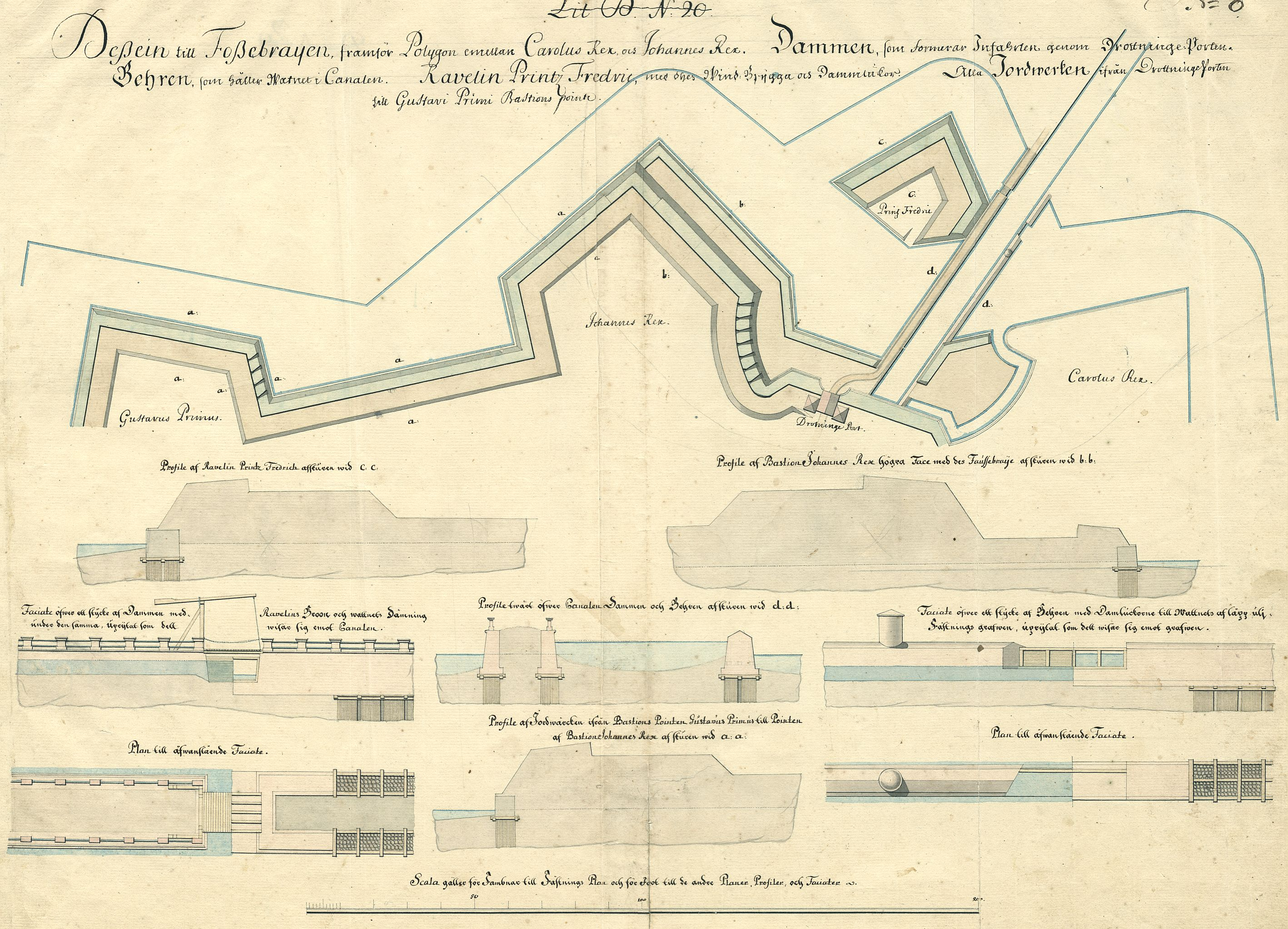 Plan of suggested rebuild of the defenceworks in Gothenburg, Sweden, near present day "Drottningtorget".